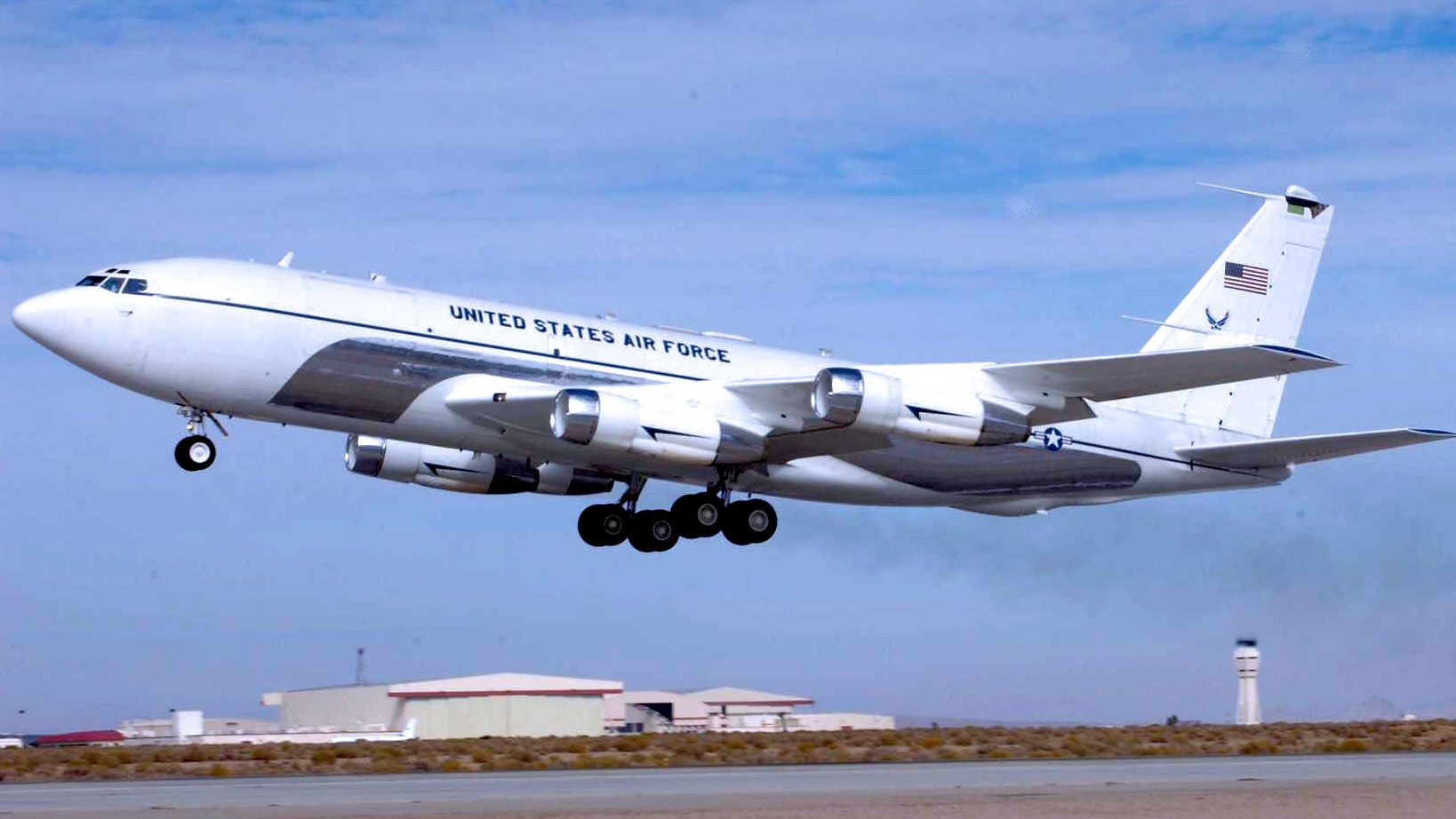 EDWARDS AIR FORCE BASE, Calif. -- A C-135C Speckled Trout takes off from here during a test mission of the local-area-network system recently installed. A six-month test was launched to see if this commercial off-the-shelf system can provide high-speed Internet, e-mail voice-over Internet protocol and video teleconferencing capabilities. (U.S. Air Force photo by George Villarino)